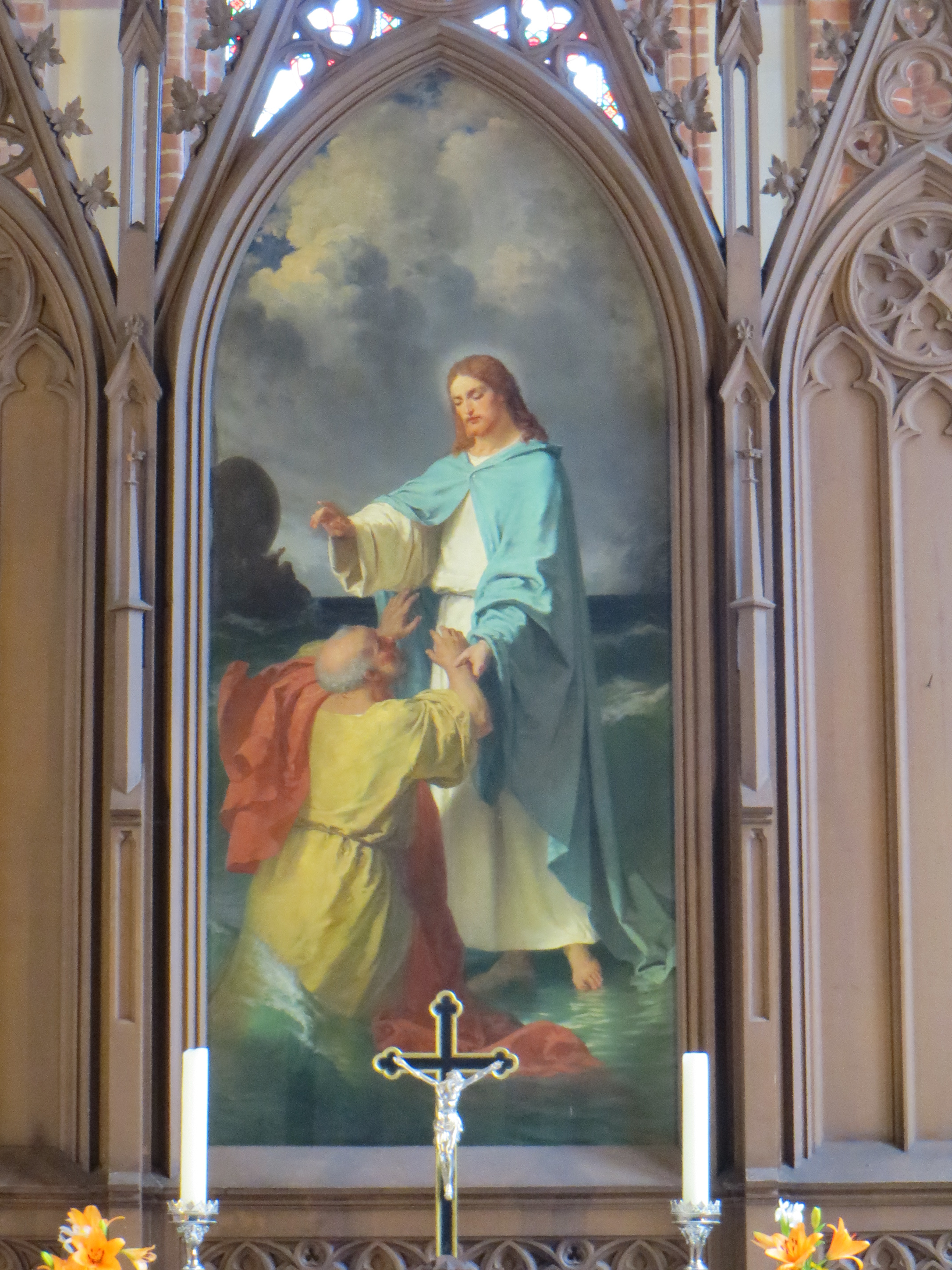 Church in Wustrow